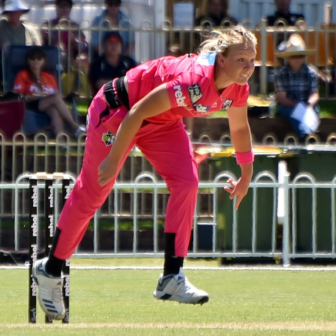 Sydney Sixers all-rounder Hayley Silver-Holmes bowling against the Perth Scorchers, in a WBBL match at Lilac Hill Park in Perth